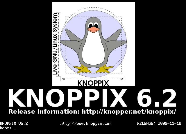 Knoppix boot screen